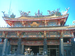 Taoism shrine